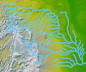 Location map of the Teton River (upper left, highlighted) — in Montana Credits ©2004 Matthew Trump